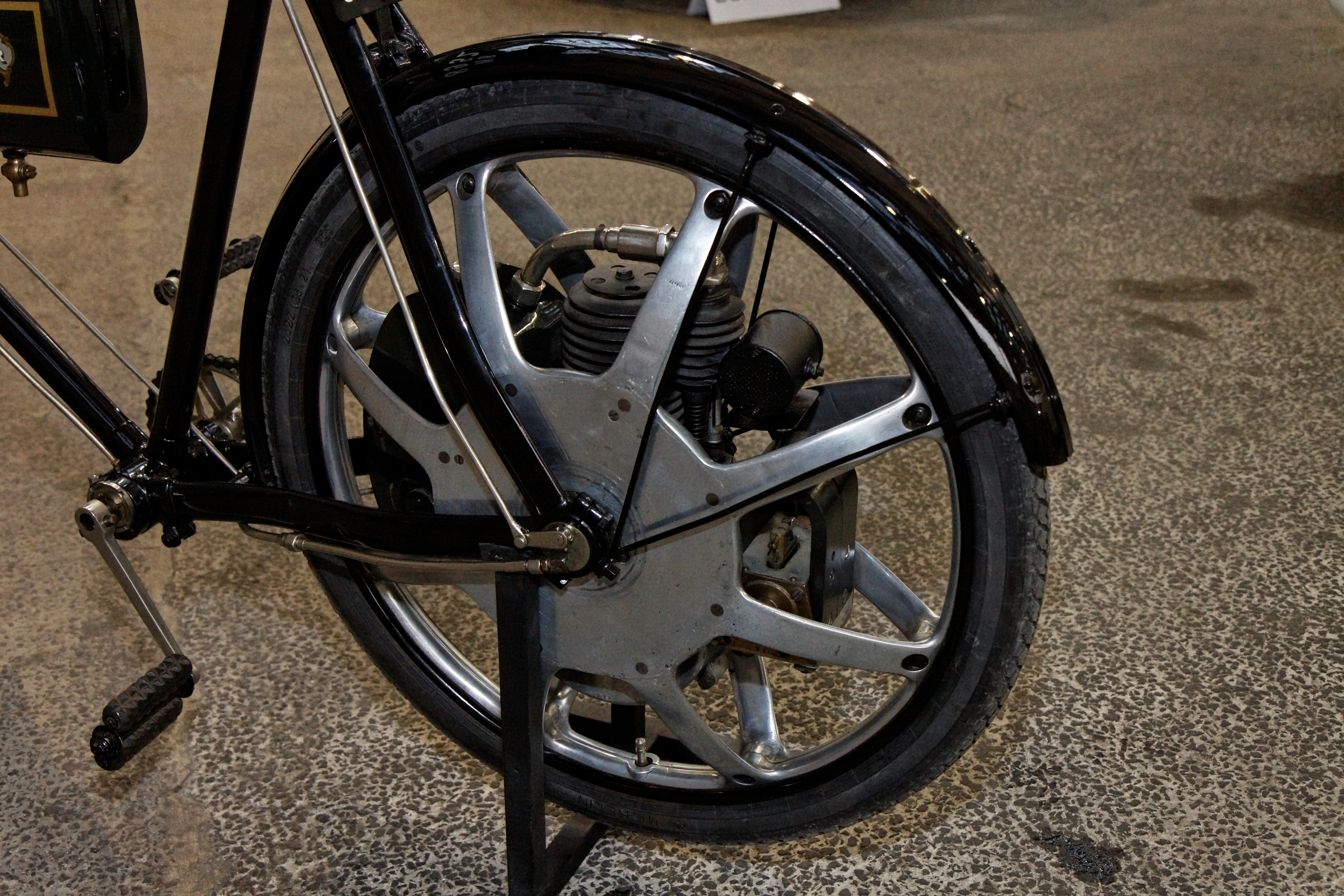 Singer Gent's Motor Bicycle